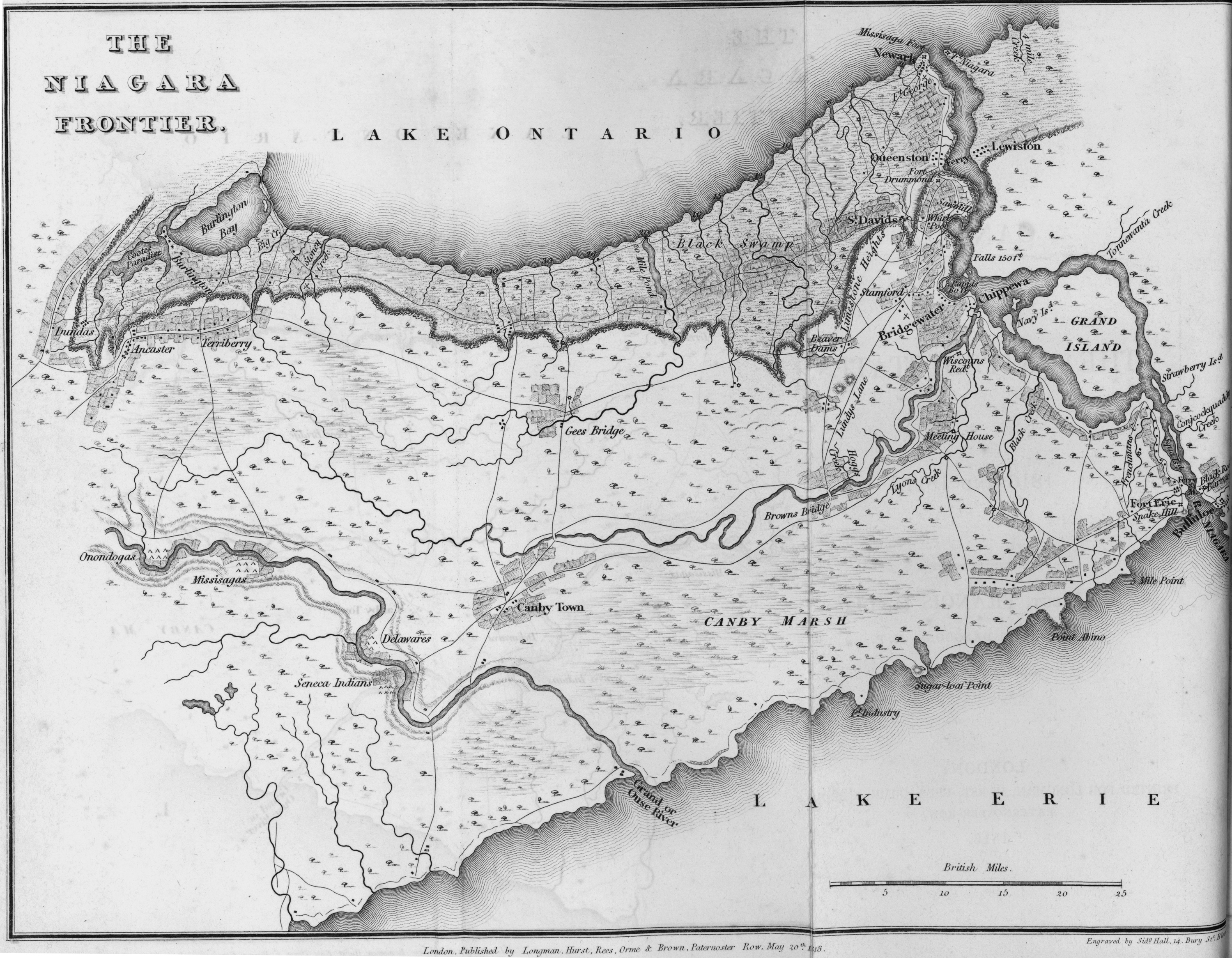 Niagara Frontier - 1818 from a collection at Brock University.